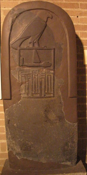 Close-up view of the Stela of Qa'a in the Museum of Archeology and Anthropolgy at the University of Pennsylvania, Philadelphia